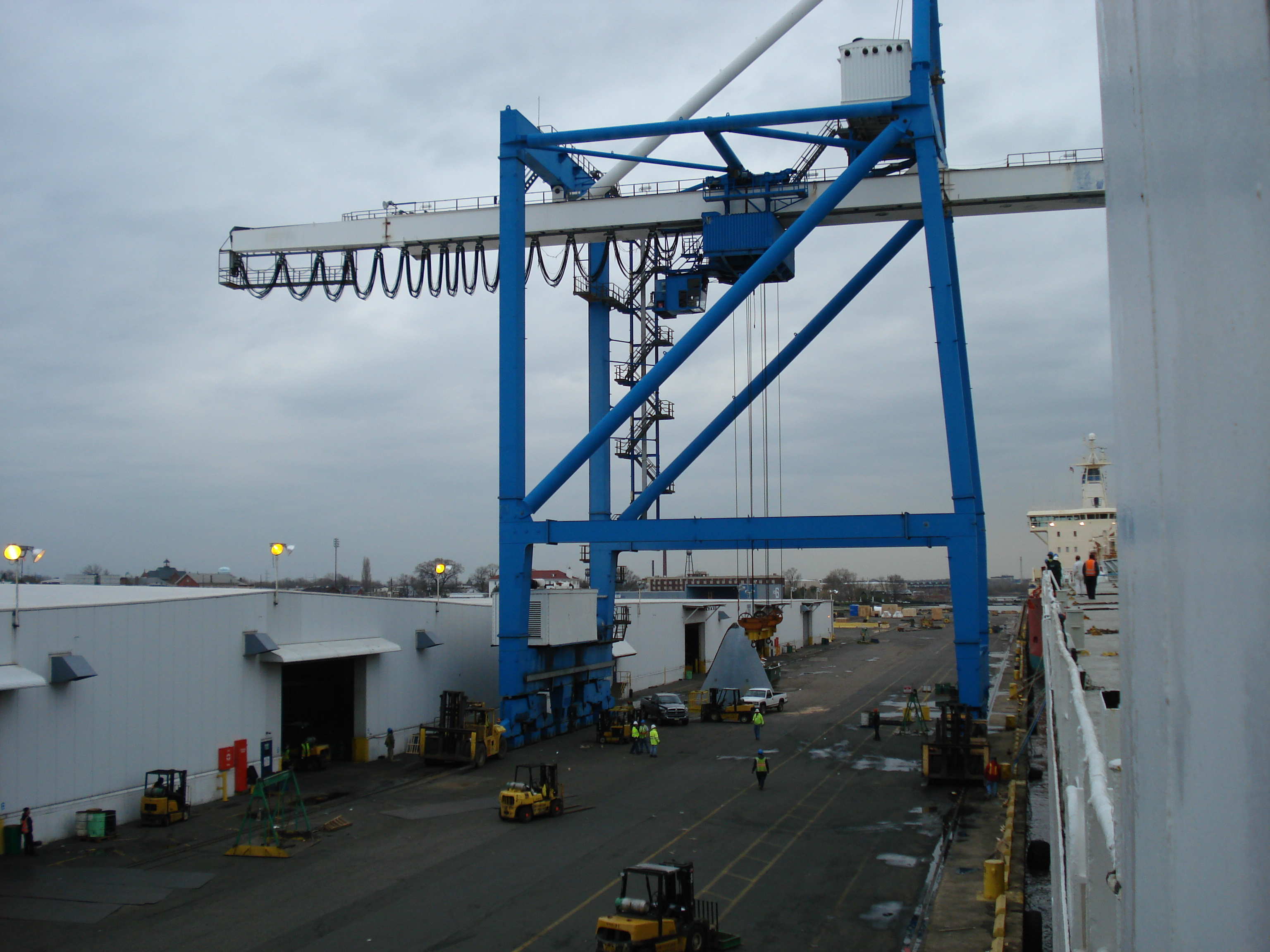 Crane at Gloucester Marine Terminal Port of Camden (NJ)